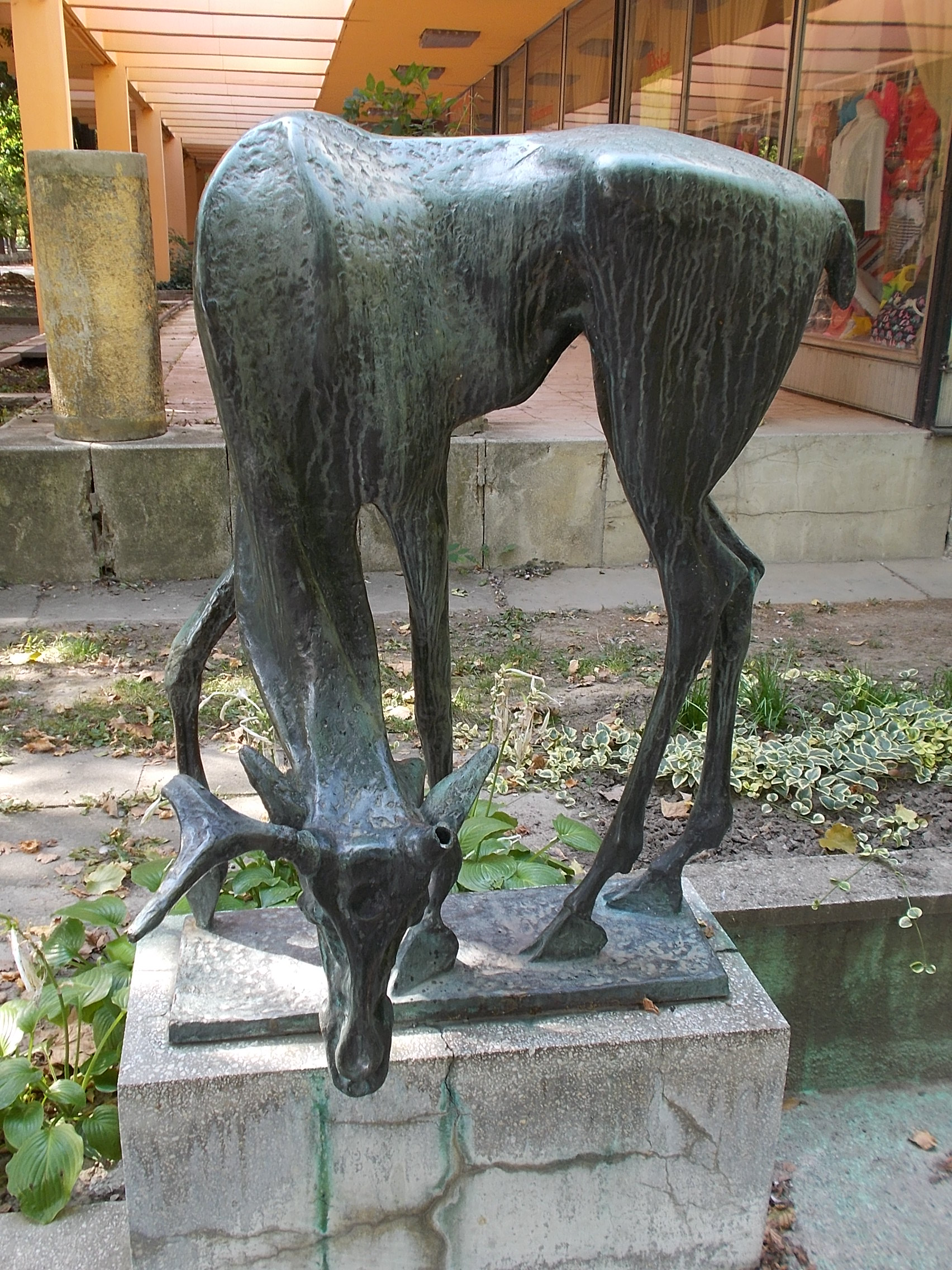 Deer by Janos Gotz - Szent István Square, Szekszárd, Tolna County, Hungary.